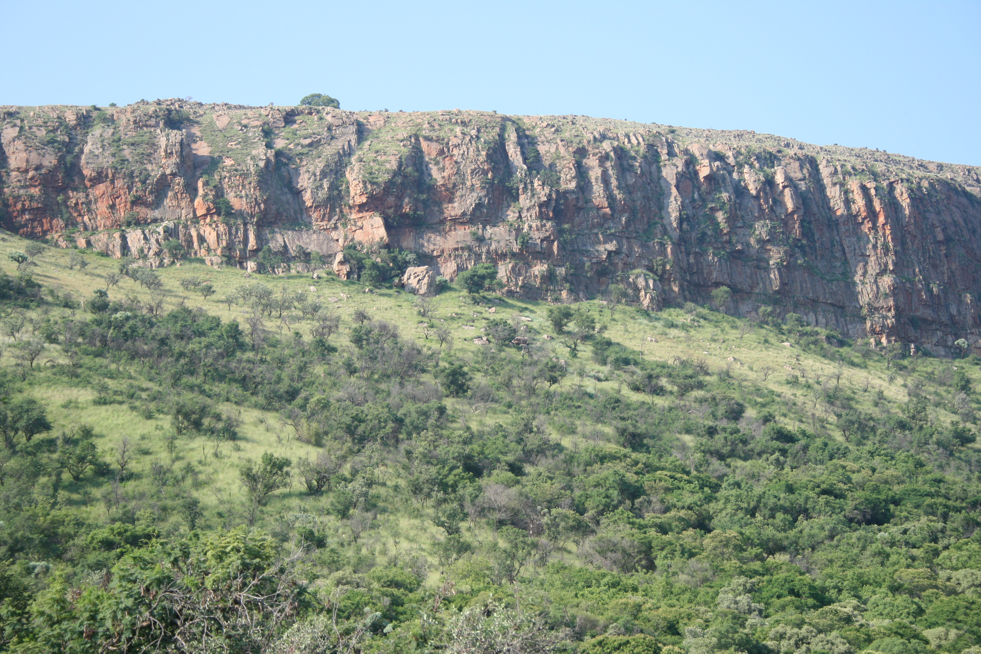 Cliffs of the Magaliesberg